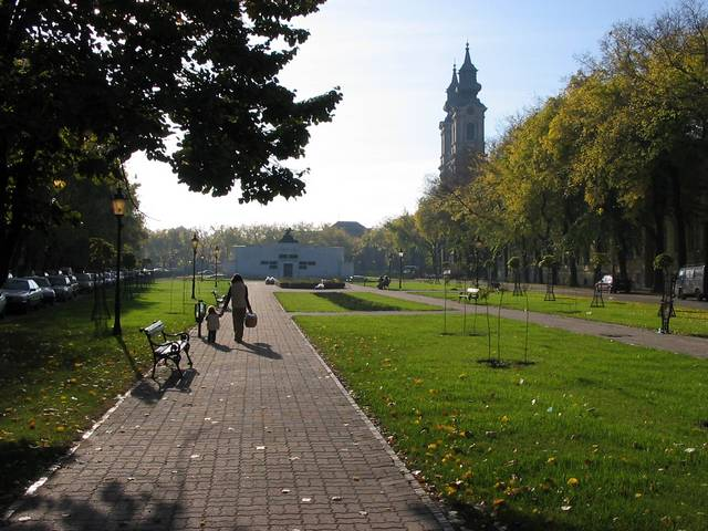 Subotica